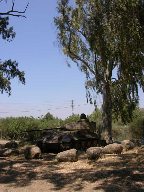 a shadowy park near the upper entrance to the Nahal Ayyun nature reserve